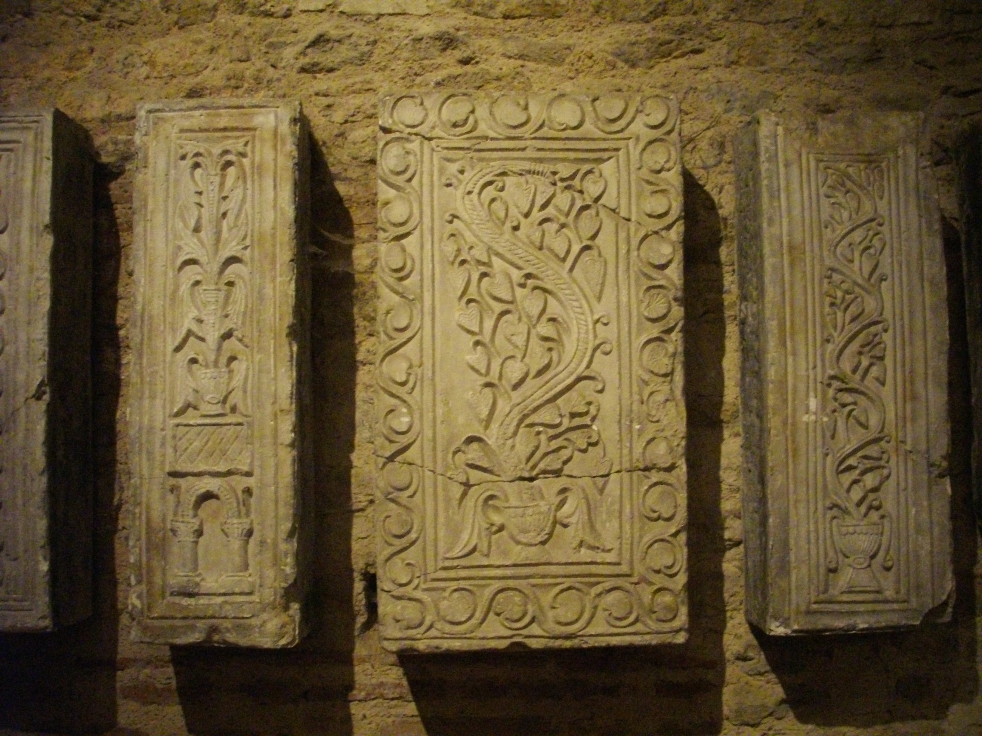 Saint-Pierre-aux-Nonnains basilica in Metz (Moselle, France) ; plaques of the chancel ? .